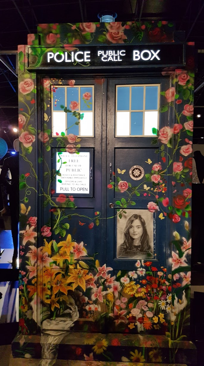 The painted TARDIS prop with Clara's face from S10E12 "Hell Bent" at the Doctor Who Experience, Cardiff.